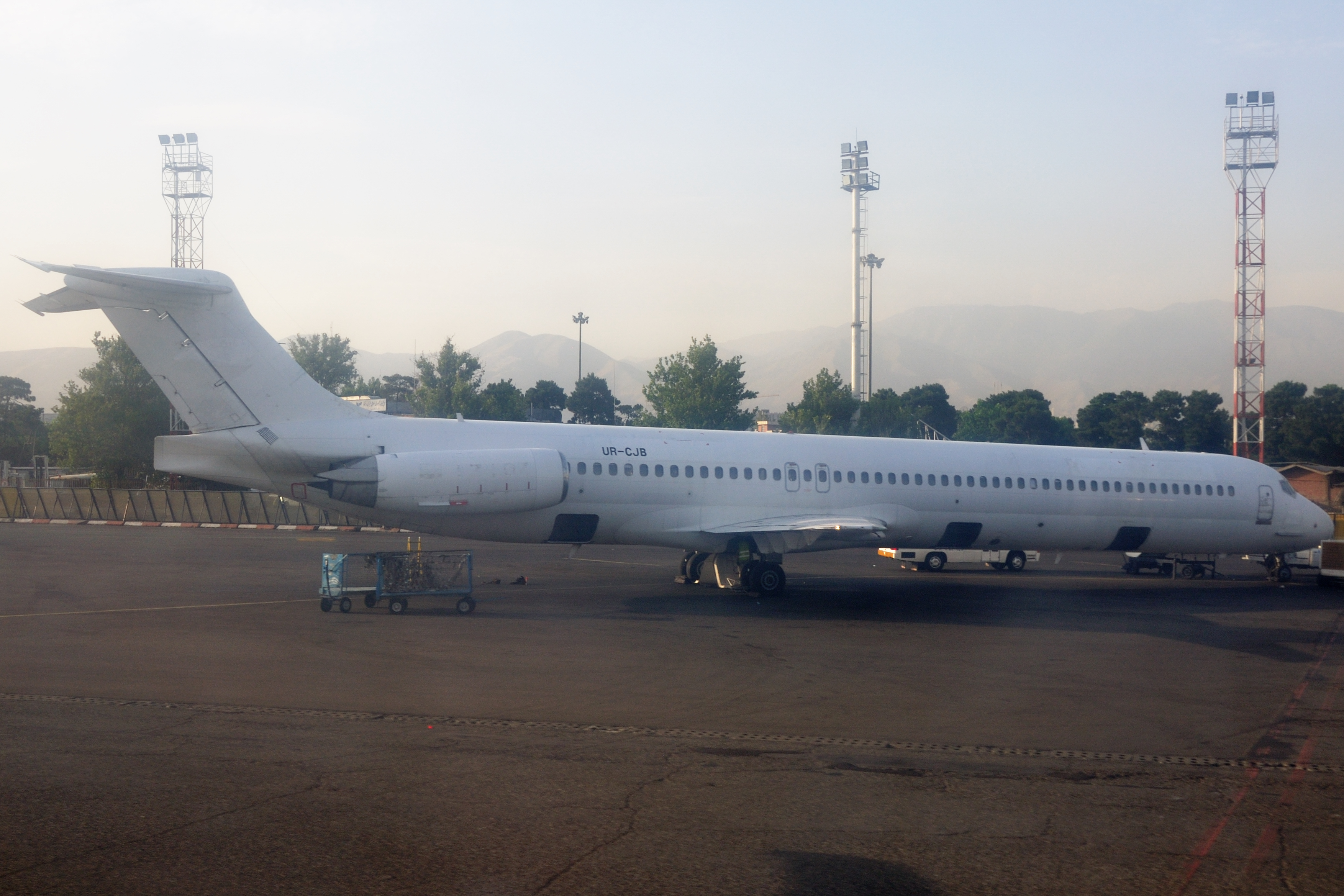 Iran, Zagros Air MD-83 at Tehran's Mehrabad Airport (leased from Khors Aircompany, Ukraine)